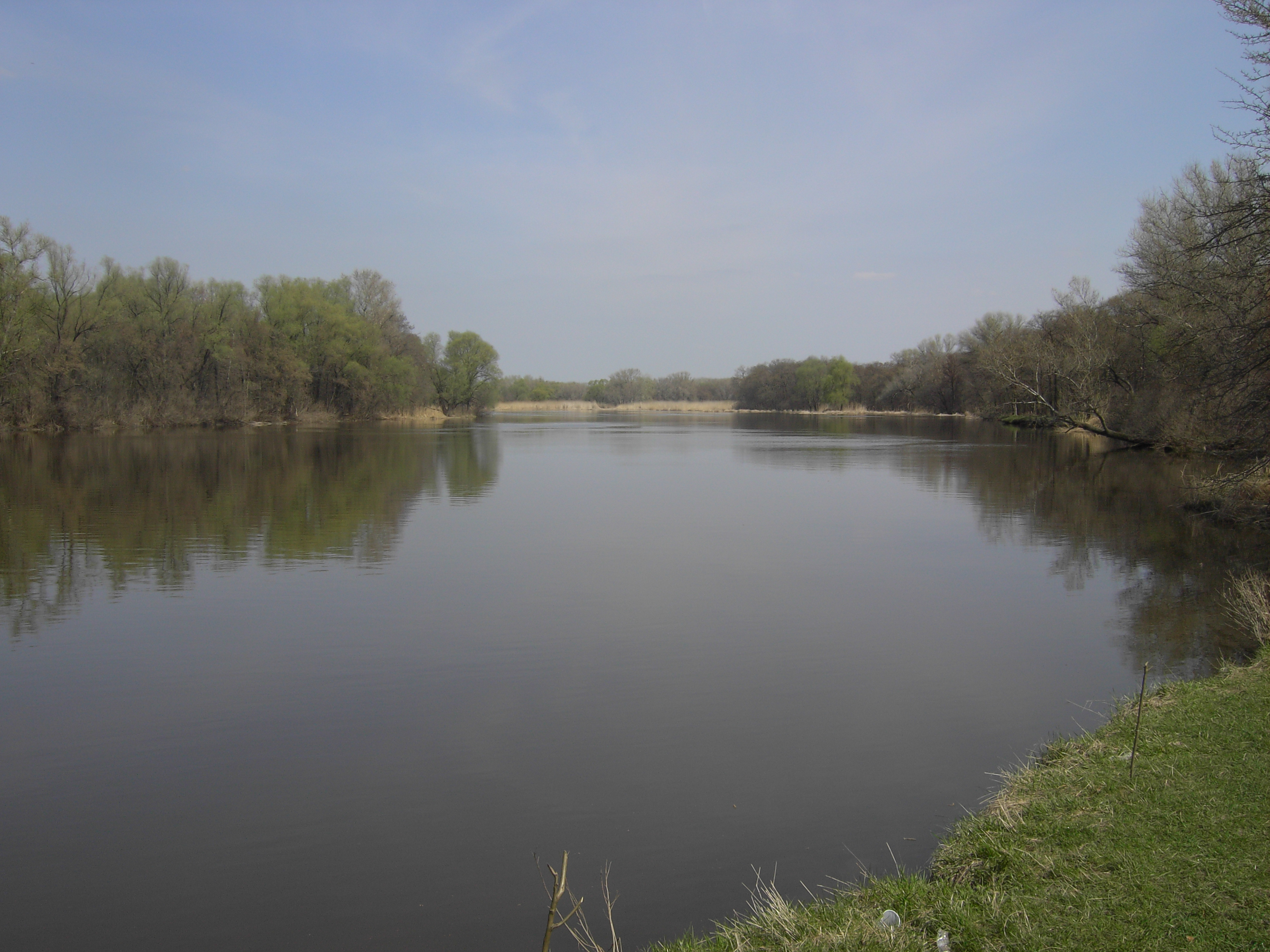 Псел ліва притока Дніпра, Psel is a left tributary of the Dnieper River